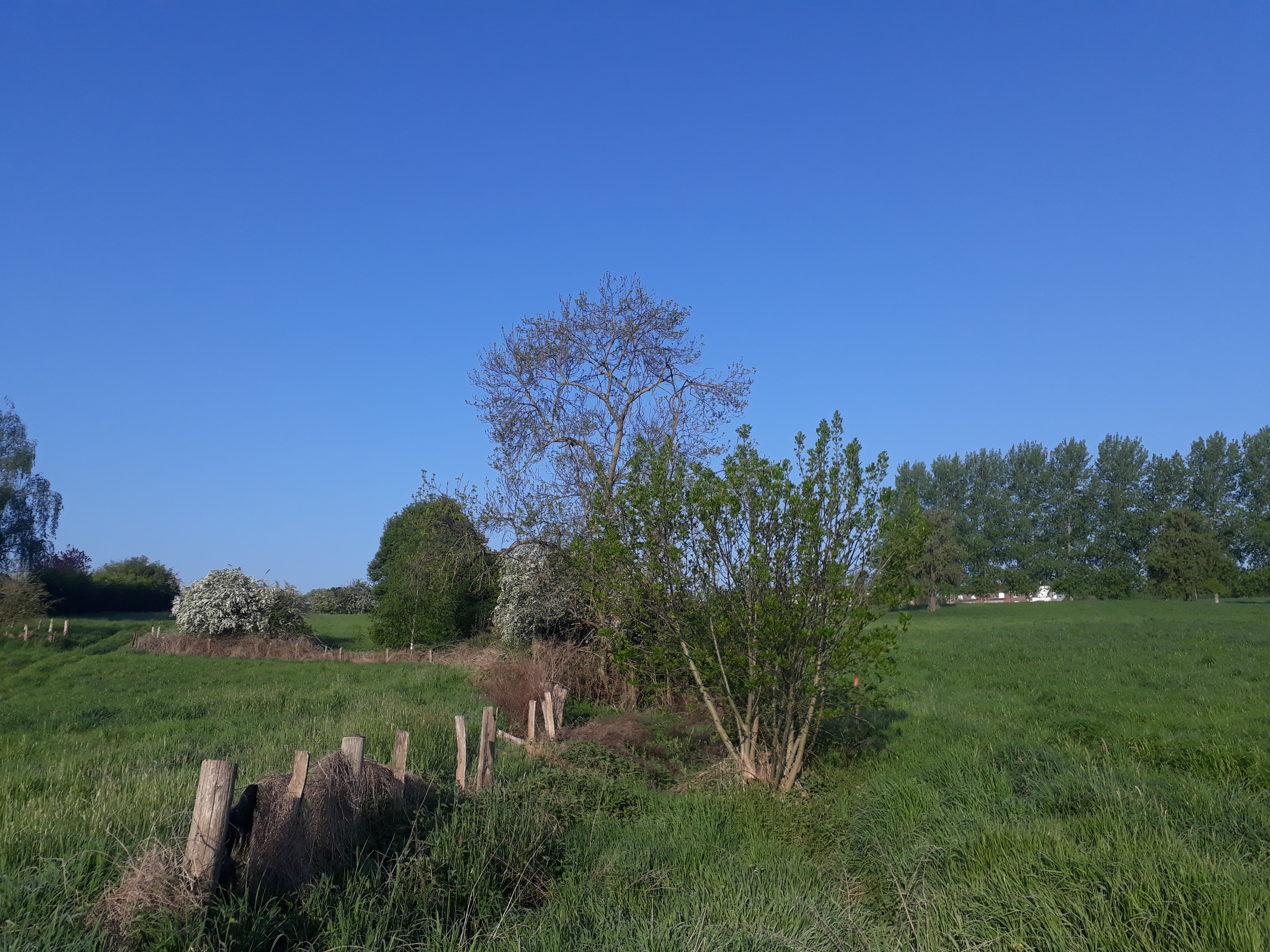 Bocage à Haren